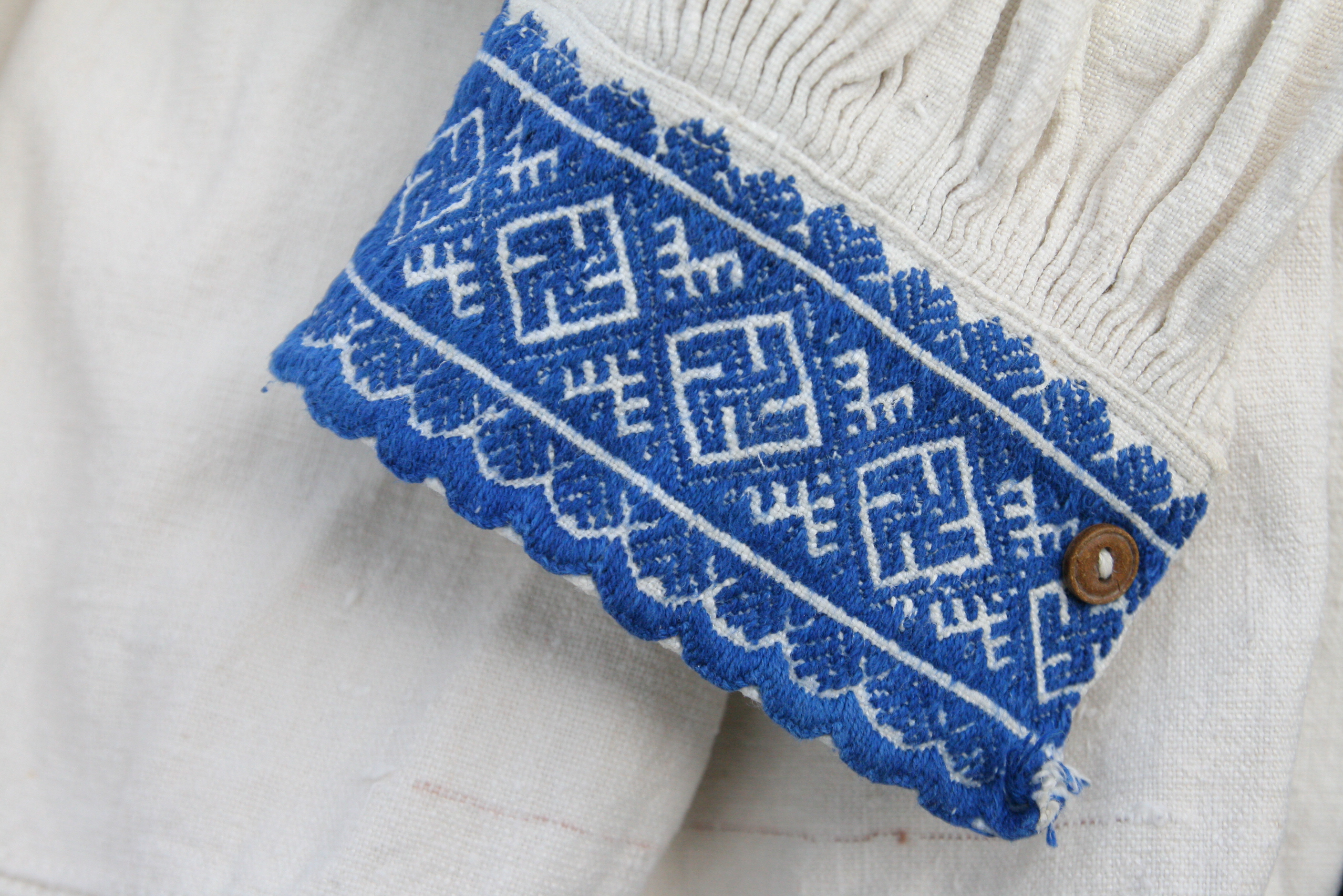 Swastika on a chemise from Bihar (rom. Bihor).